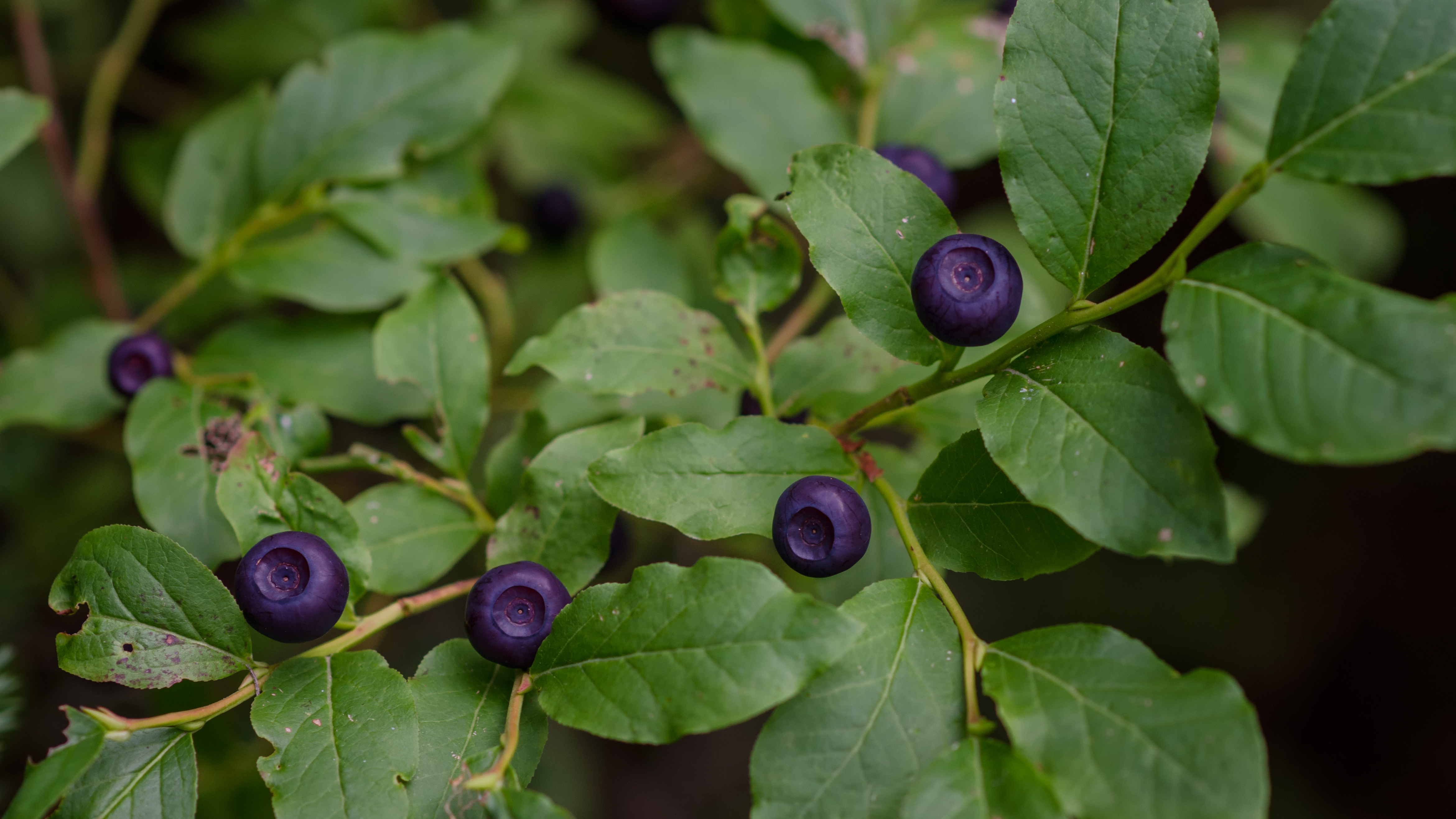 Huckleberry around Golden, BC, Canada